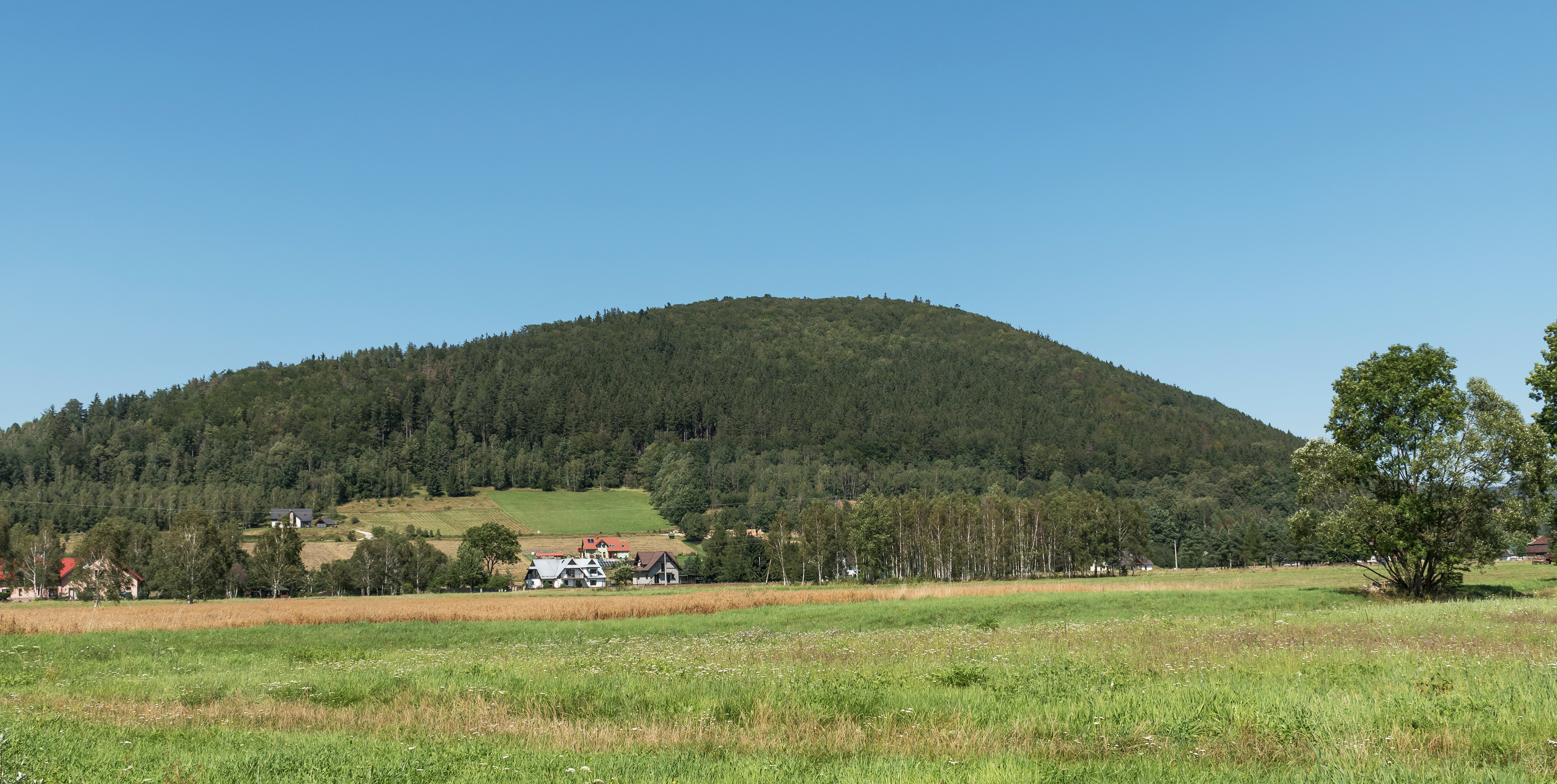 Cieniak, Złote Mountains, Sudetes